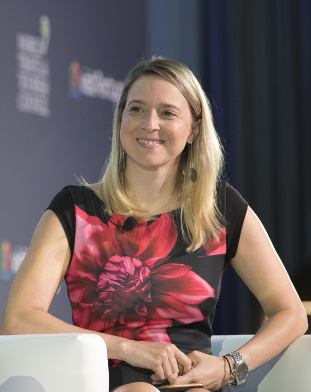 Claudia Monteiro de Aguiar, Member of the European Parliament